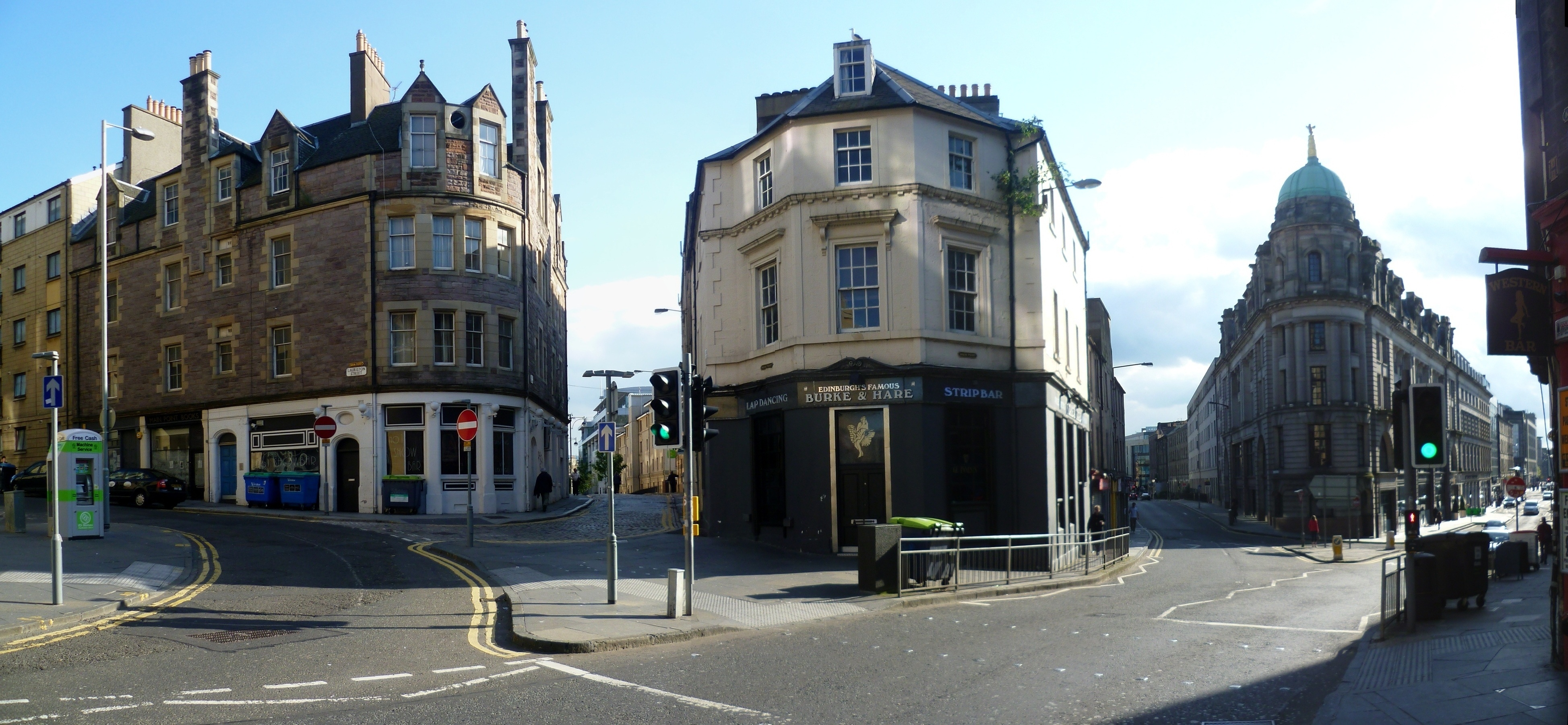 Main Point at the top of the slope from Edinburgh's West Port. It was the historic junction of the three roads (2nd l. to r.) to Carlisle via Biggar, Glasgow via Lanark and Stirling via Linlithgow.